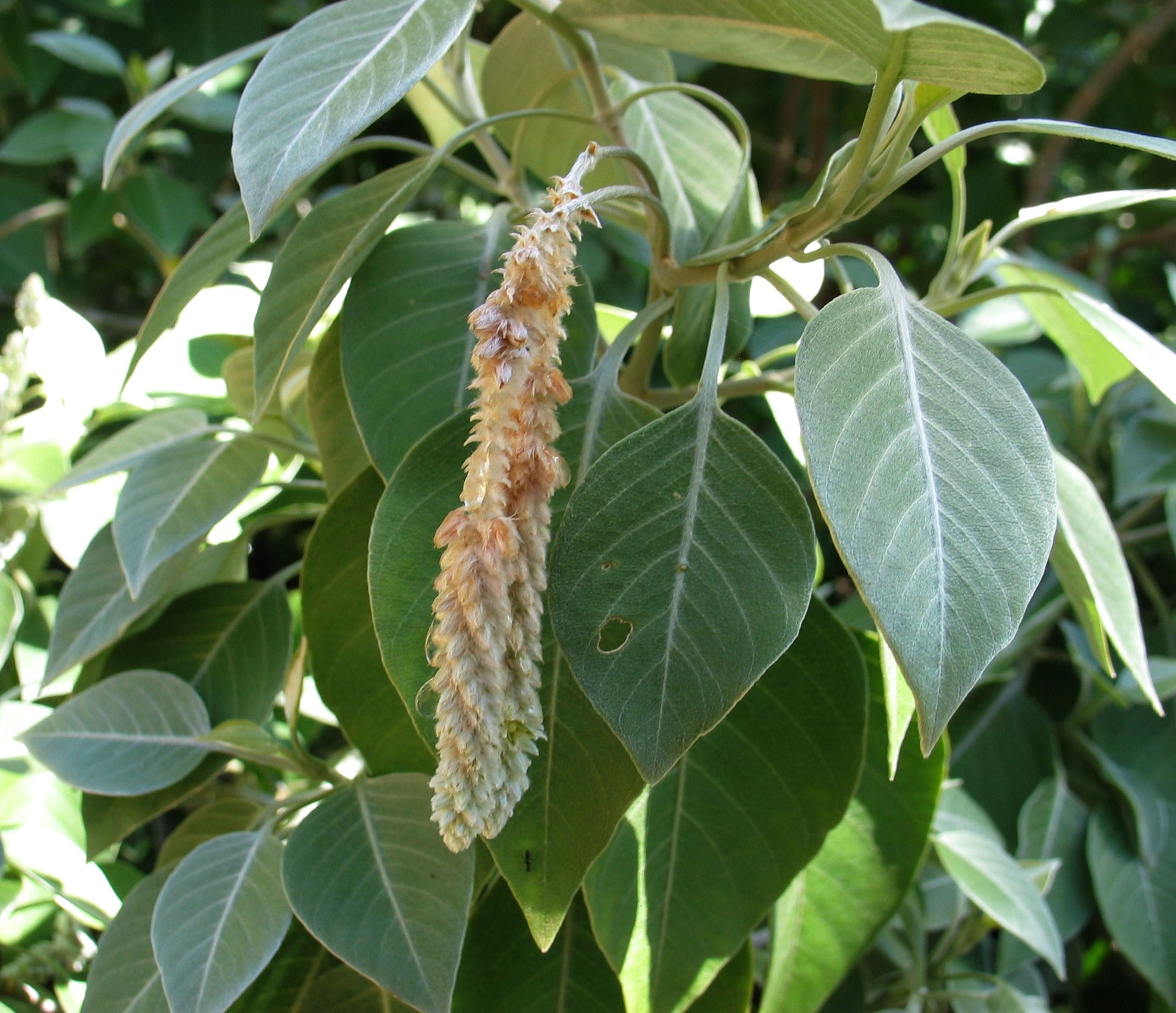 Kuluʻī or Hawaii rockwort Amaranthaceae Endemic to the Hawaiian Islands Oʻahu (Cultivated) NPH00002